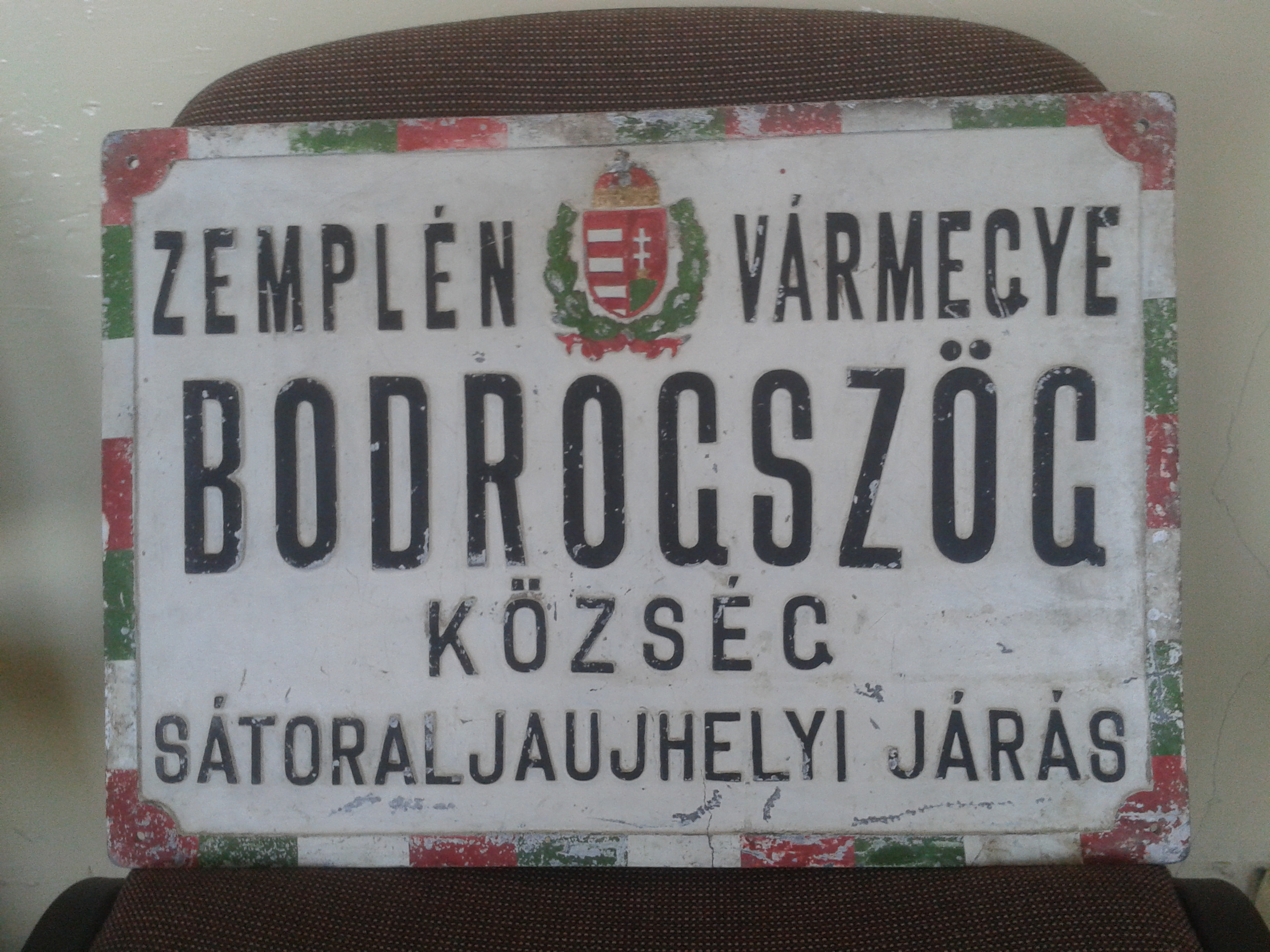 City limit sign of Klin nad Bodrogom (Bodrogszög yet in Hungarian): Zemplén County / Bodrogszög Municipality / Sátoraljaújhely District. Before 1945